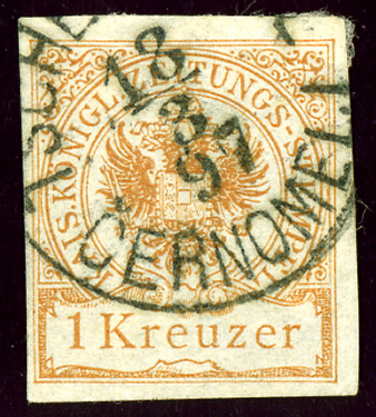 1 kr Newspaper Tax bilingual cancellation in 1897 at Tschernembl - Črnomelj(Slovenia)